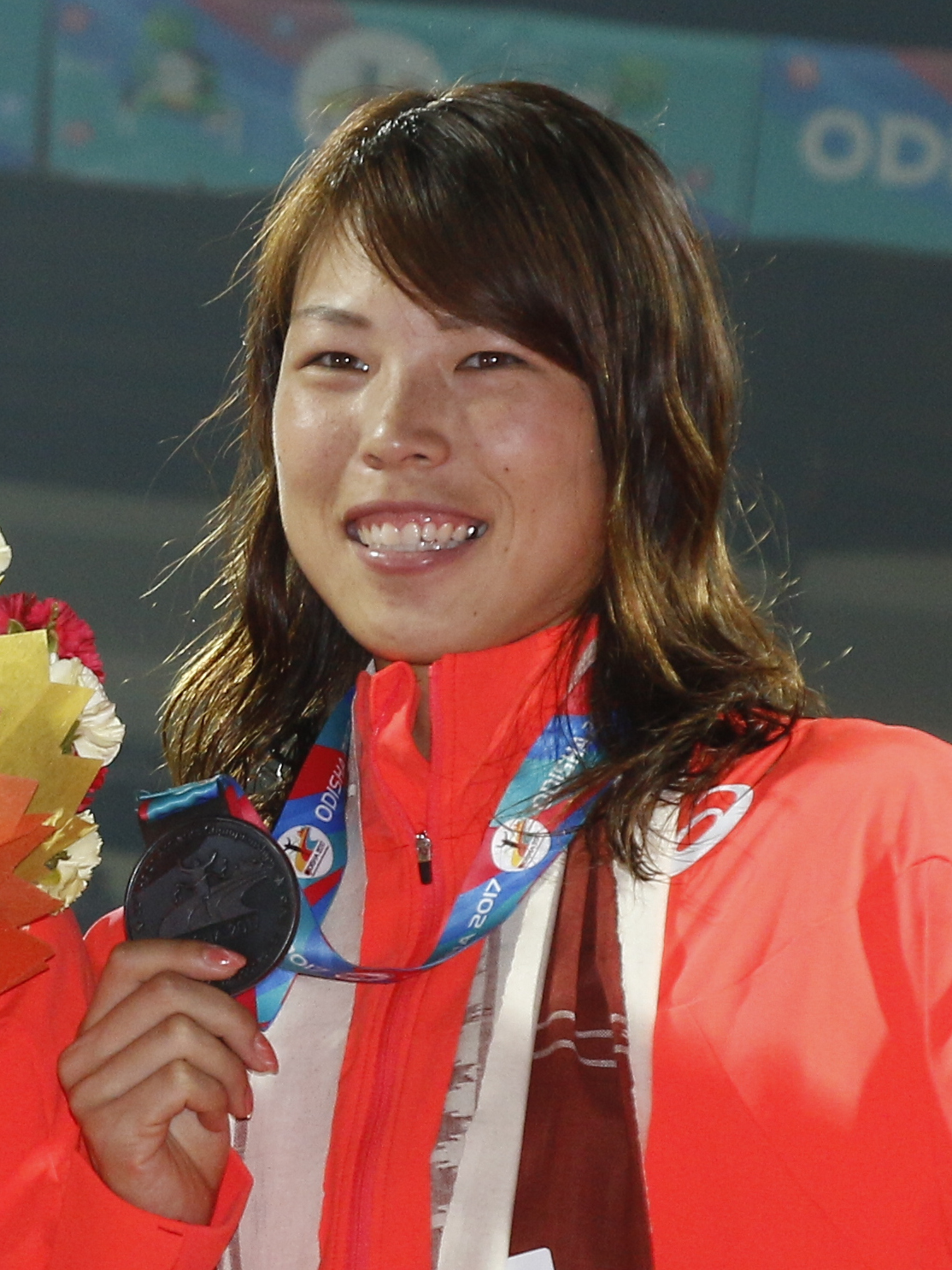 Athletes during 22nd Asian Athletics Championships in Bhubaneswar. Sayaka Aoki 15-12-1986 396 Kana Ichikawa 01-12-1991 391 Seika Aoyama 05-01-1996 402 Manami Kira 23-10-1991